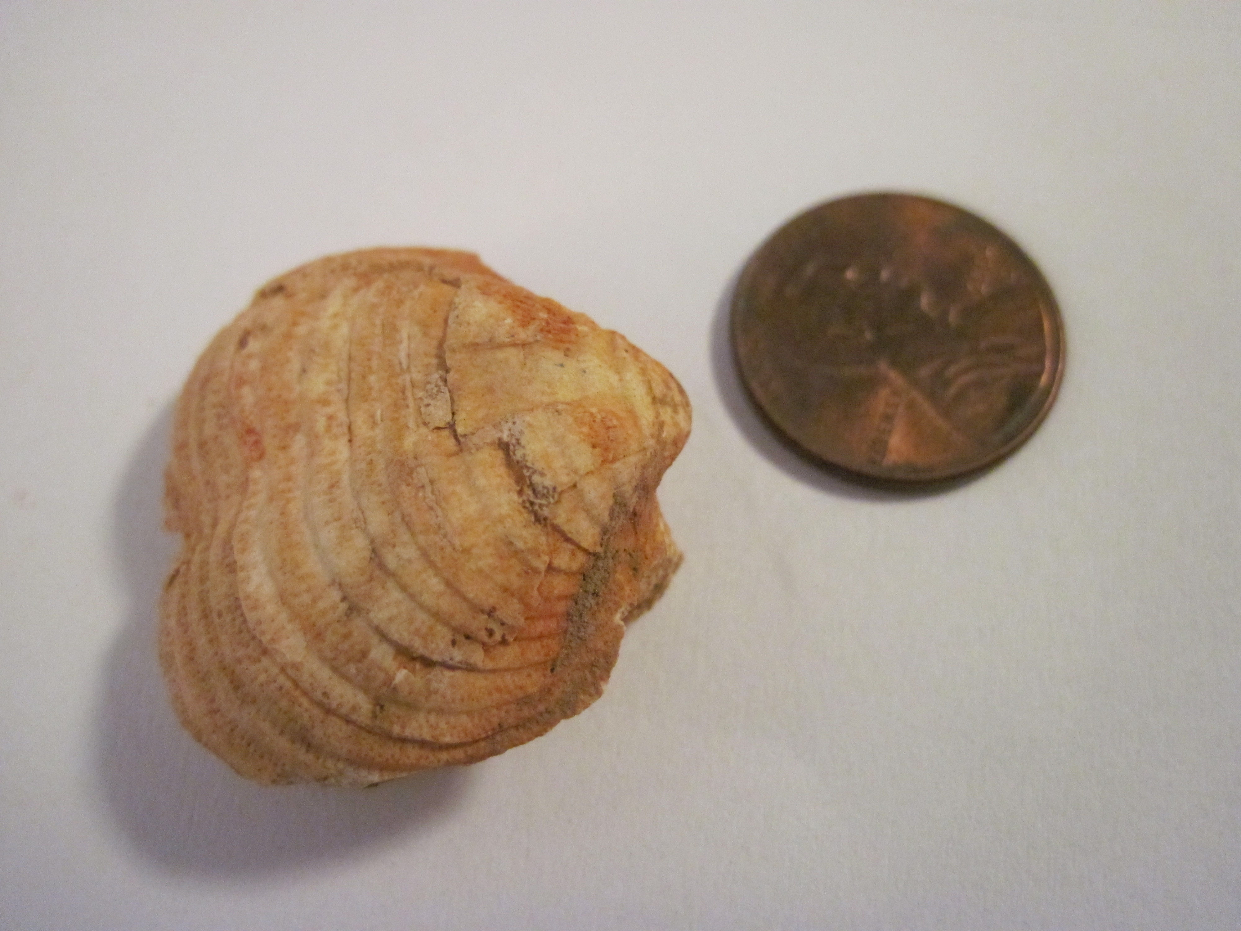 A Composita fossil with scale from the Boone Formation of northern Arkansas